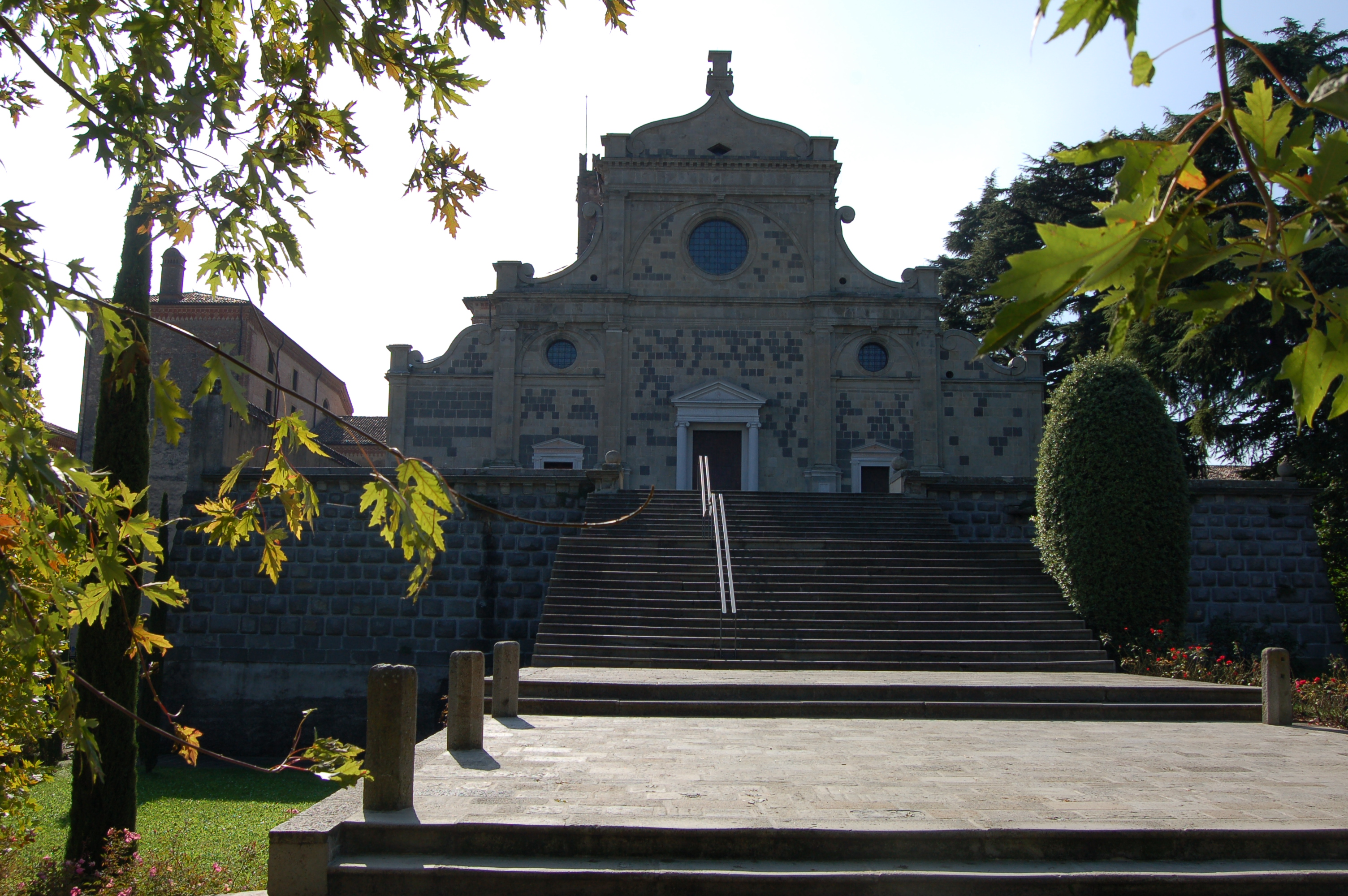 Facade and portal of Abbazia di Praglia (Praglia Abbey) church, Padova Province, Italy